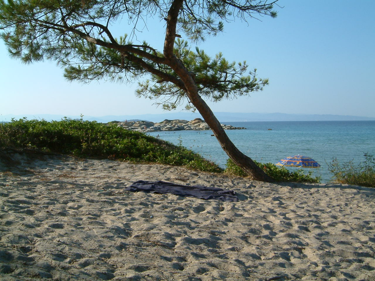 Karydi Beach in Vourvourou, Agios Nikolaos, Chalkidiki, Greece